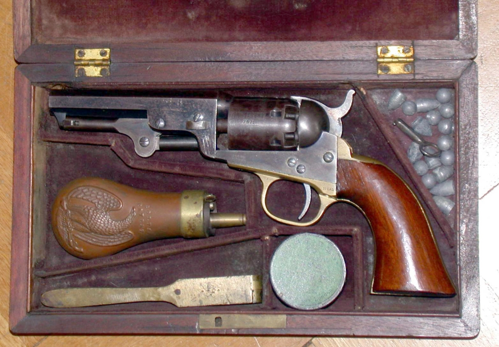 Colt49 Pocket